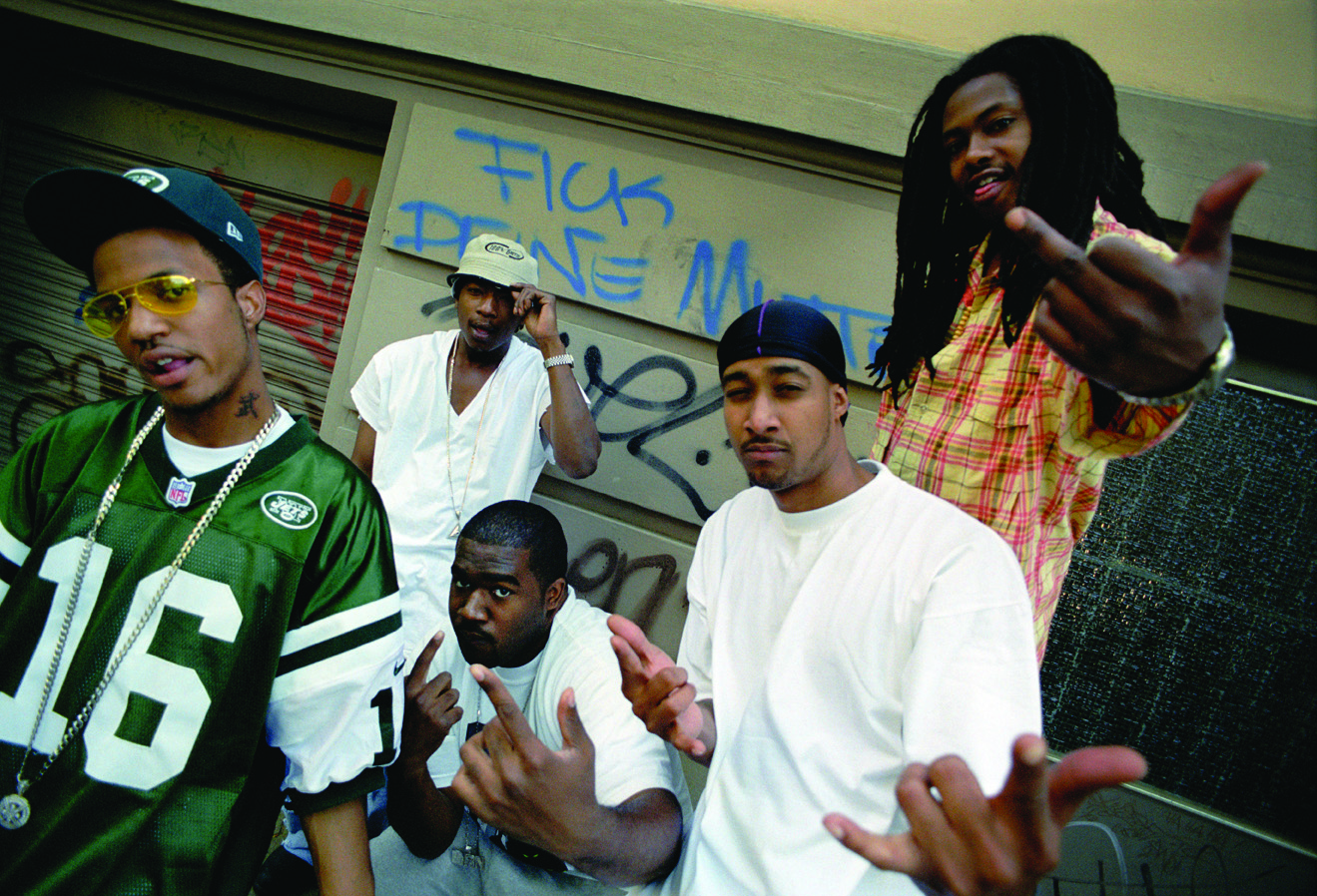 rap group Outsidaz, Cologne/Germany 2001